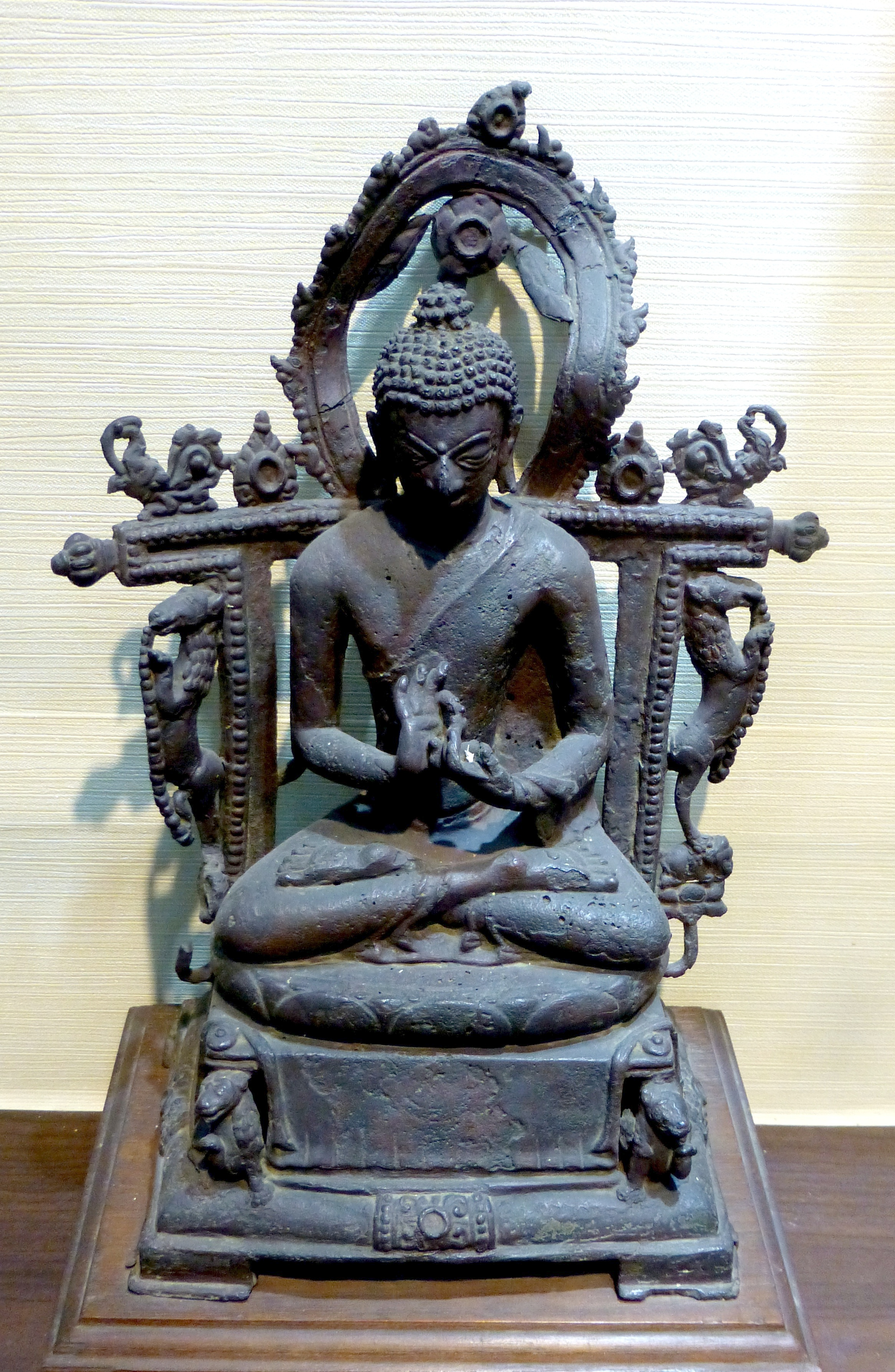 43 Buddha Teaching, Nalanda, at the Patna Museum, Bihar Photograph from the Patna Museum in Bihar taken by Anandajoti.